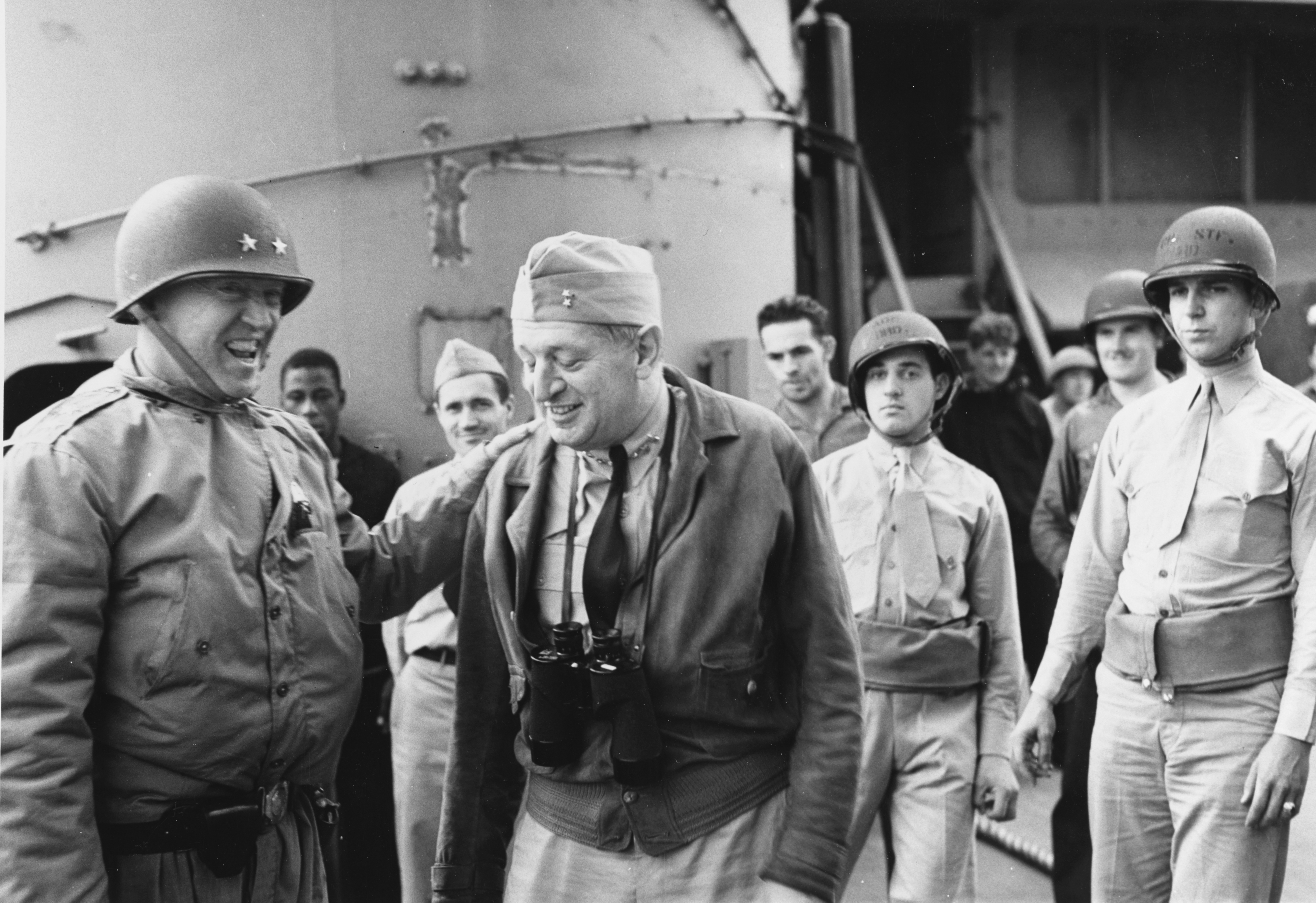 Major General George S. Patton, Jr., U.S. Army, Commanding General, Western Task Force, U.S. Army (left), and Rear Admiral H. Kent Hewitt, USN, Commander Western Naval Task Force, (center) share a light moment on board the U.S. Navy heavy cruiser USS Augusta (CA-31), off Morocco during the Operation Torch landings. Note: Although the original photo is dated 4 December 1942, it was probably taken shortly before MGen. Patton went ashore on 8 or 9 November 1942.